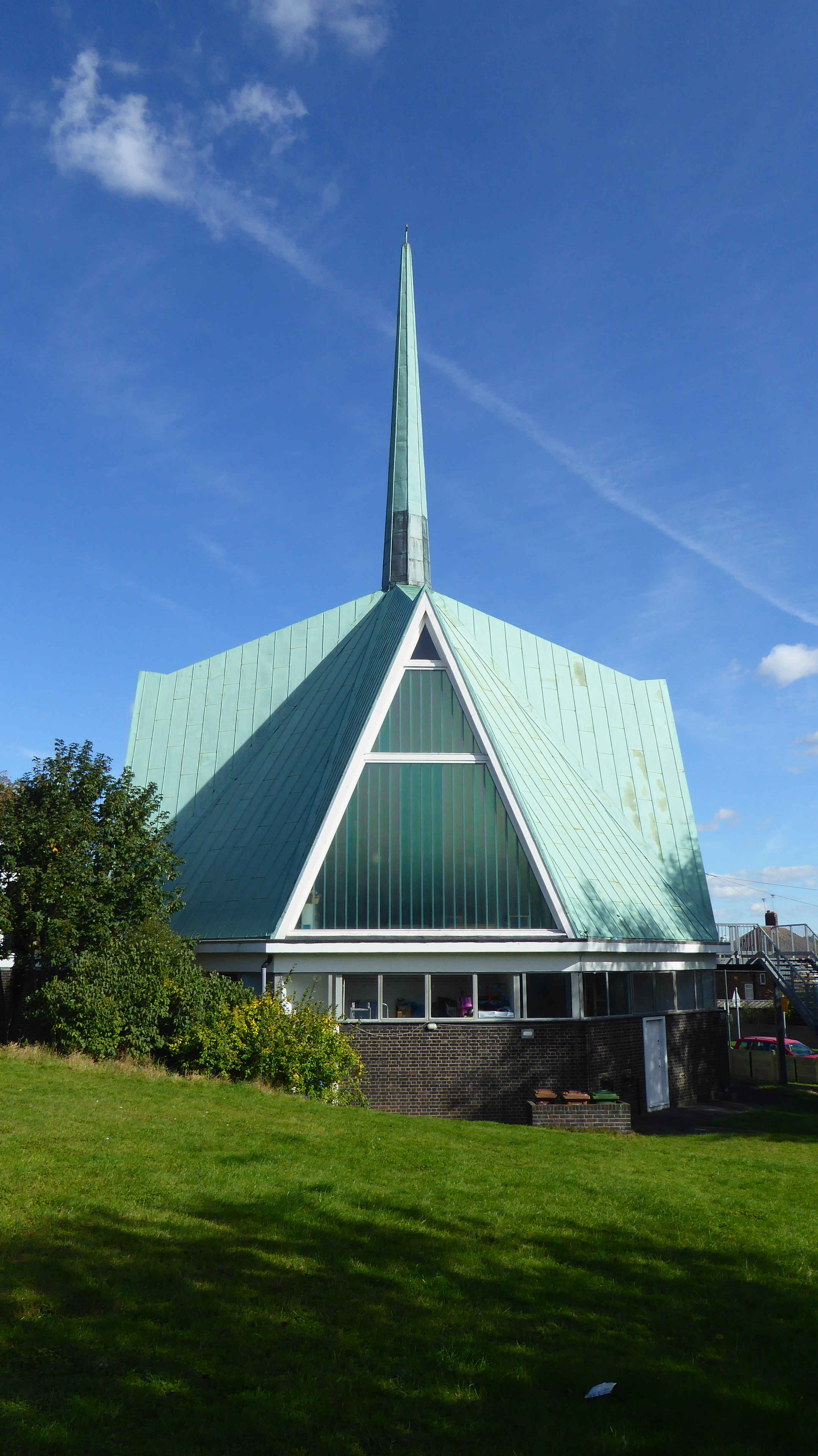 St Andrews Church, an Anglican place of worship in Albany Park, London Borough of Bexley.